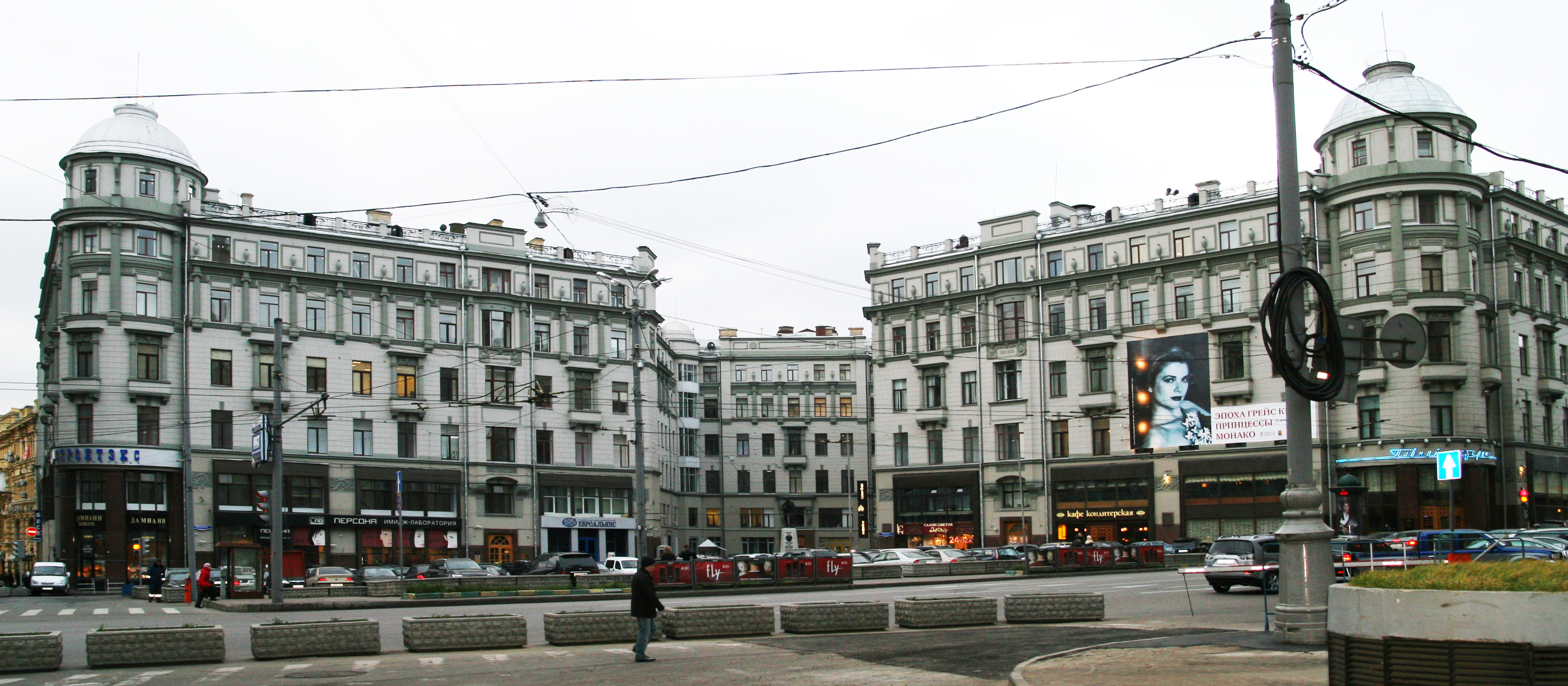 Worowsky square Moscow